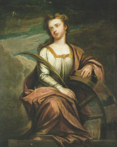 Godfrey-kneller-portrait-of-a-lady-as-st.-catherine-of-alexandria Elsewhere the lady is identified as Letitia Cross, singer at Drury Lane. c. 1697 as before she met Peter the Great